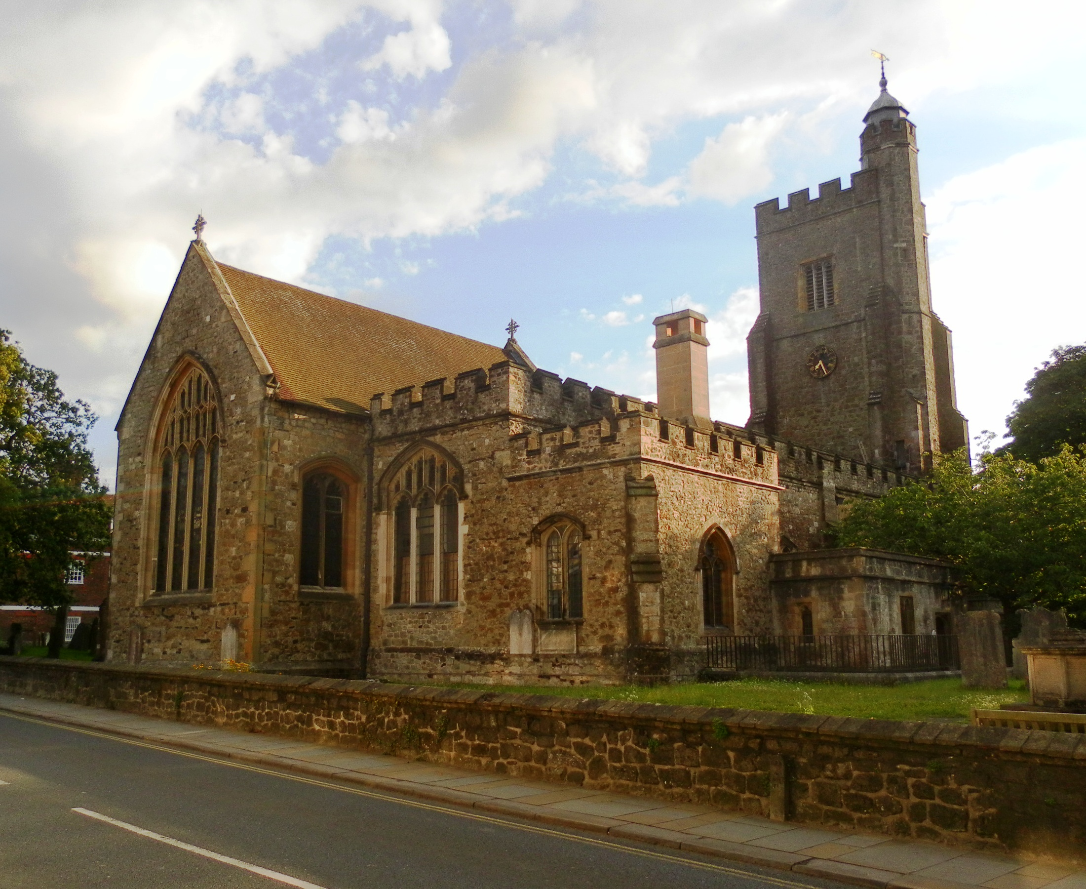 St Nicholas' Church, Sevenoaks, Sevenoaks District, Kent. The ancient parish church of Sevenoaks. Listed at Grade II* by English Heritage (NHLE Code 1204351)